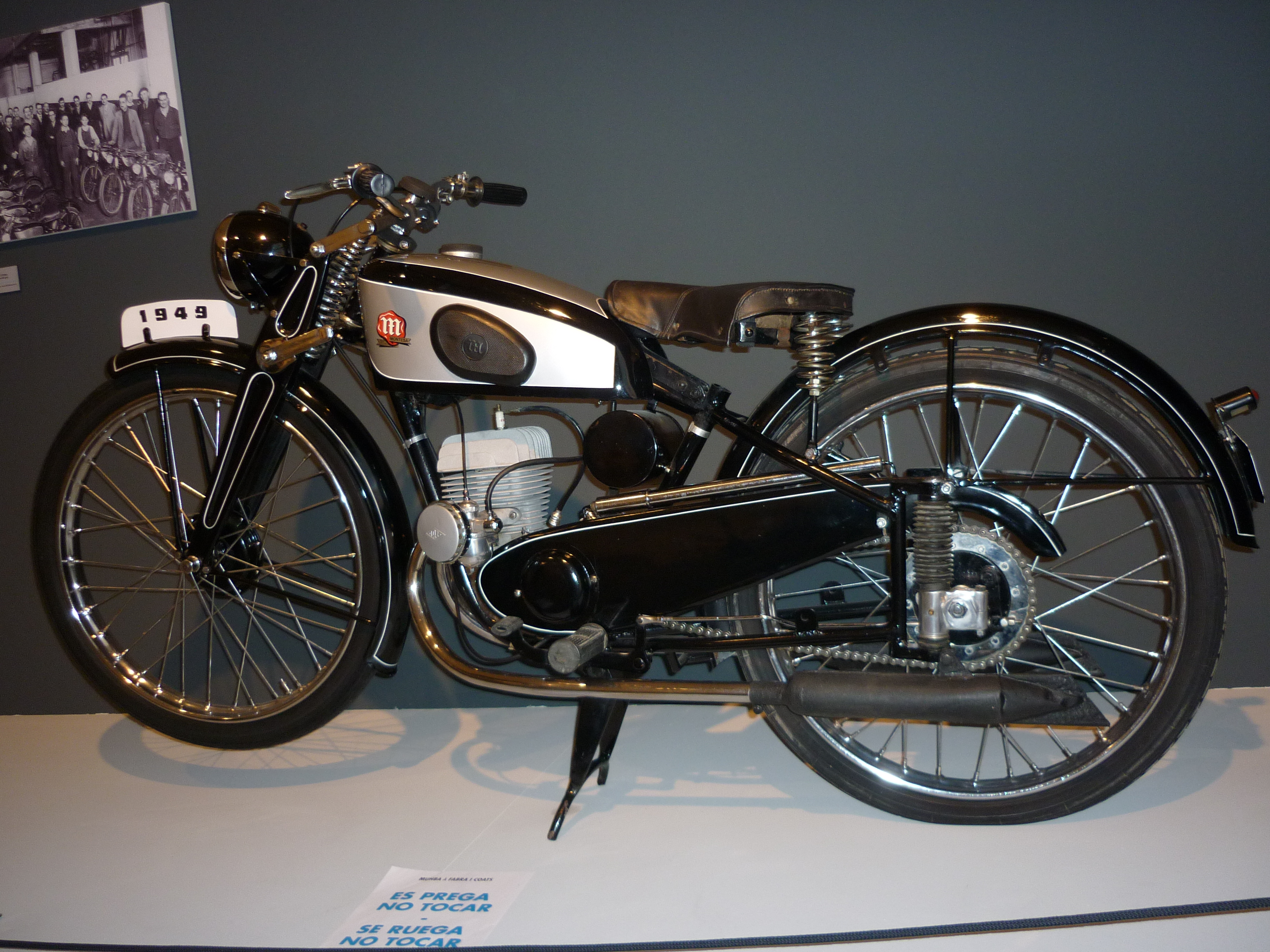 Montesa B-46/49 125cc (1949)